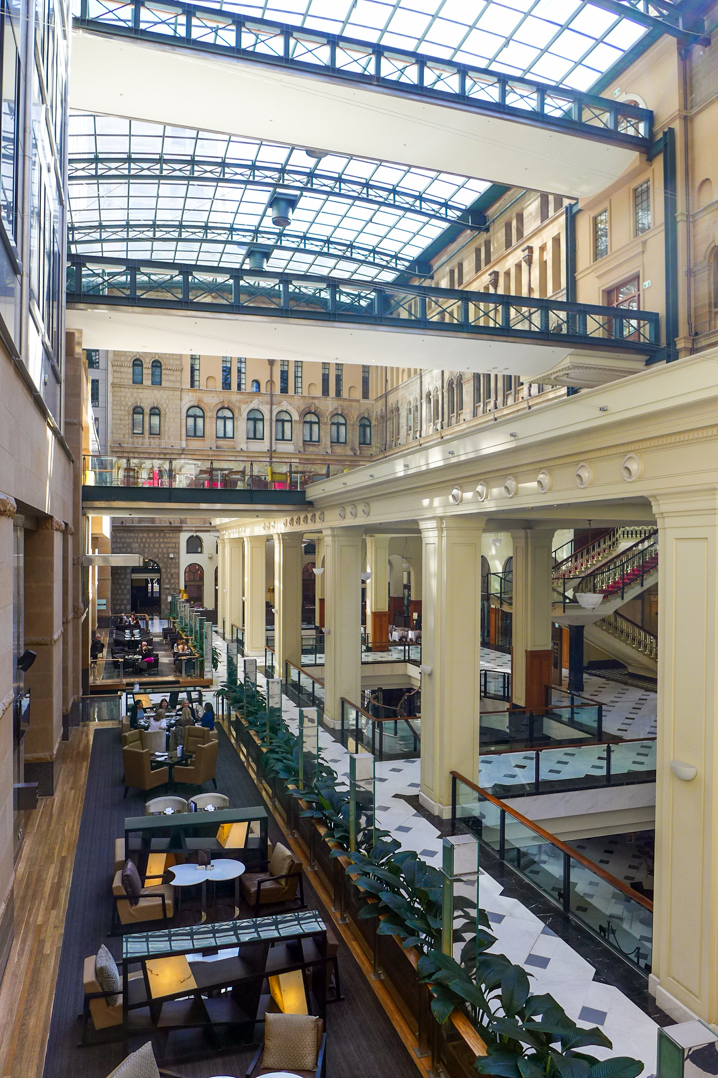 General Post Office, Sydney Atrium